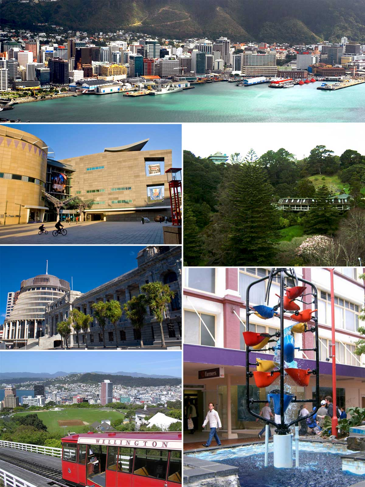 Photo montage of Wellington city